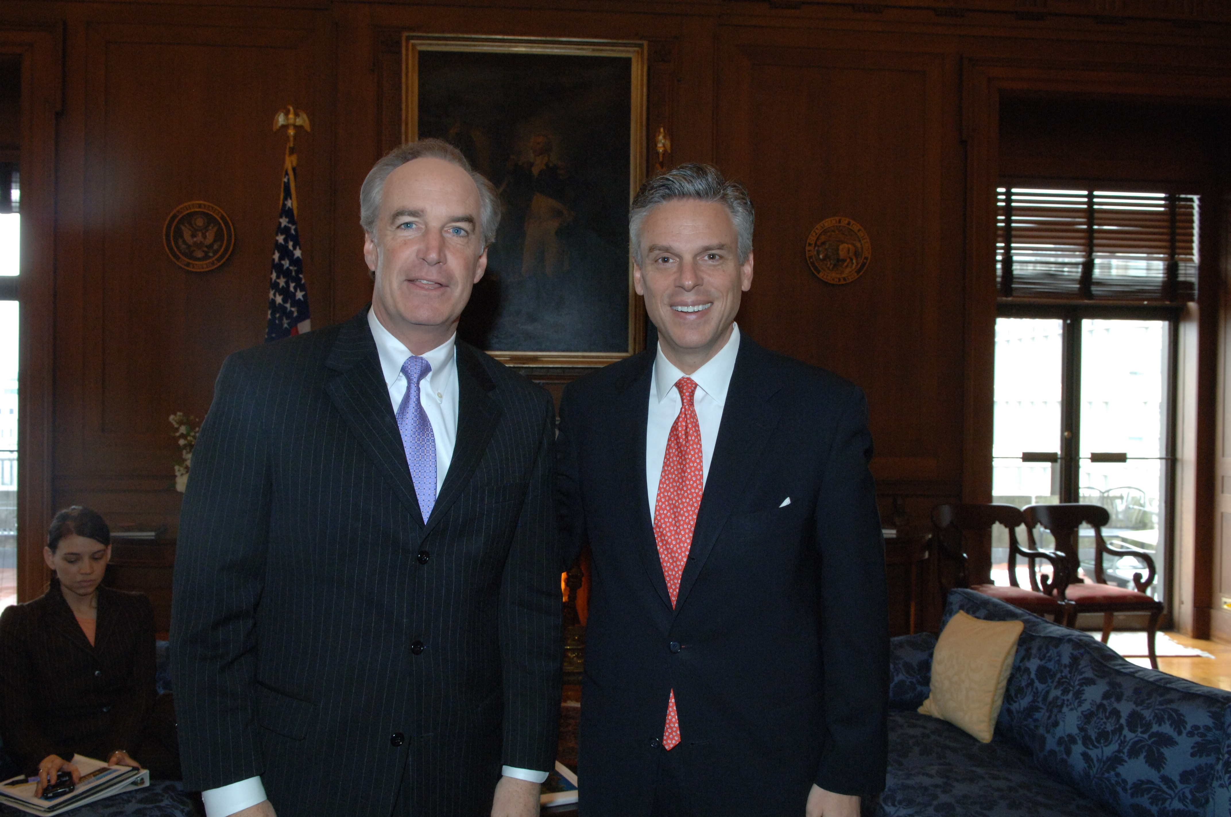 [Assignment: 48-DPA-SOI_K_Huntsman] Secretary Dirk Kempthorne [and aides meeting at Main Interior] with Utah Governor Jon Huntsman, Jr. [and associates] [48-DPA-SOI_K_Huntsman_DOI_4657.JPG], 2/26/2007